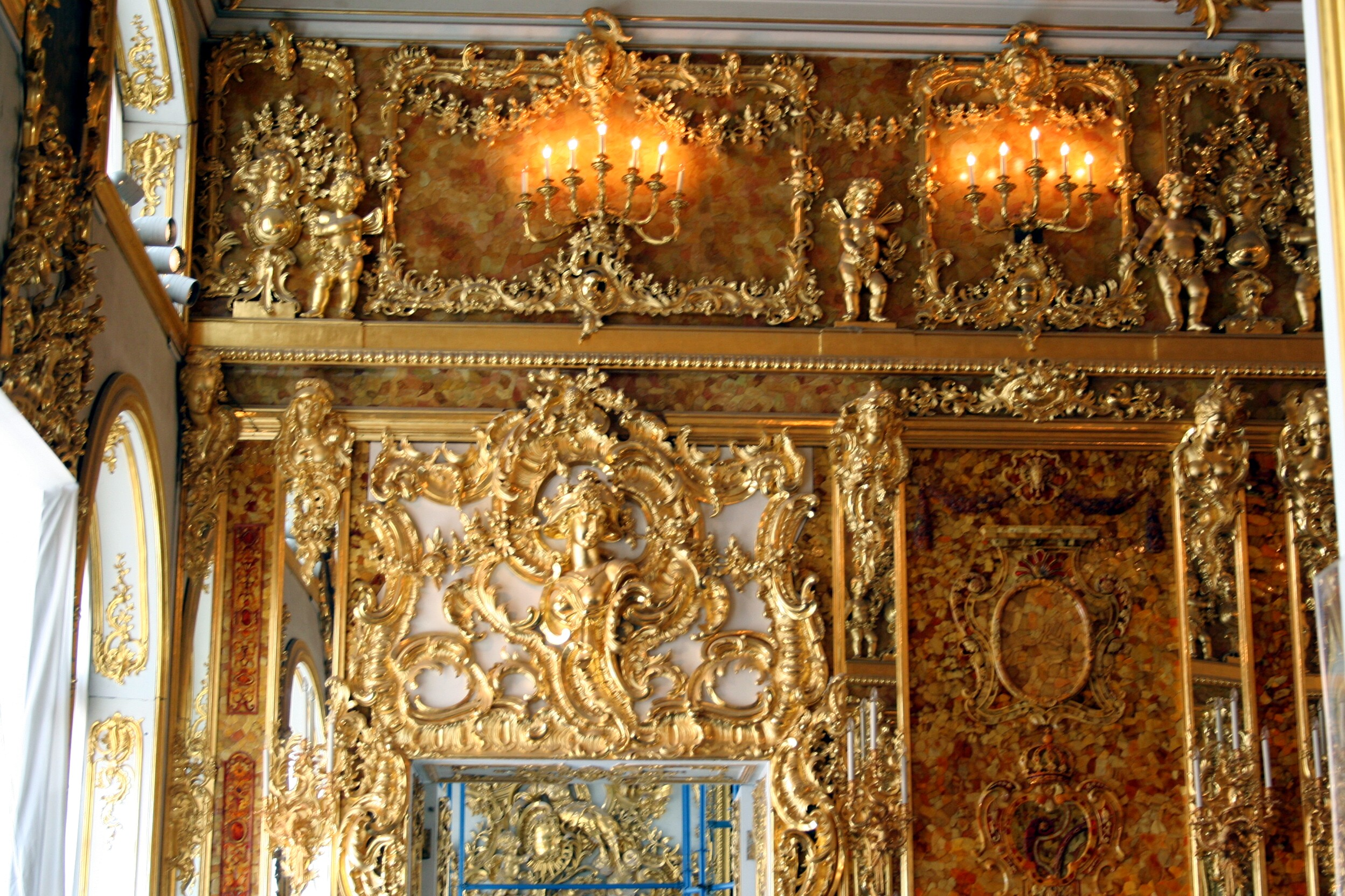 Pushkin (Russia), Amber room of the Catherine Palace Template:Palacio de Catalina edificado para la zarina Isabel, salón de ámbar. Amber Room